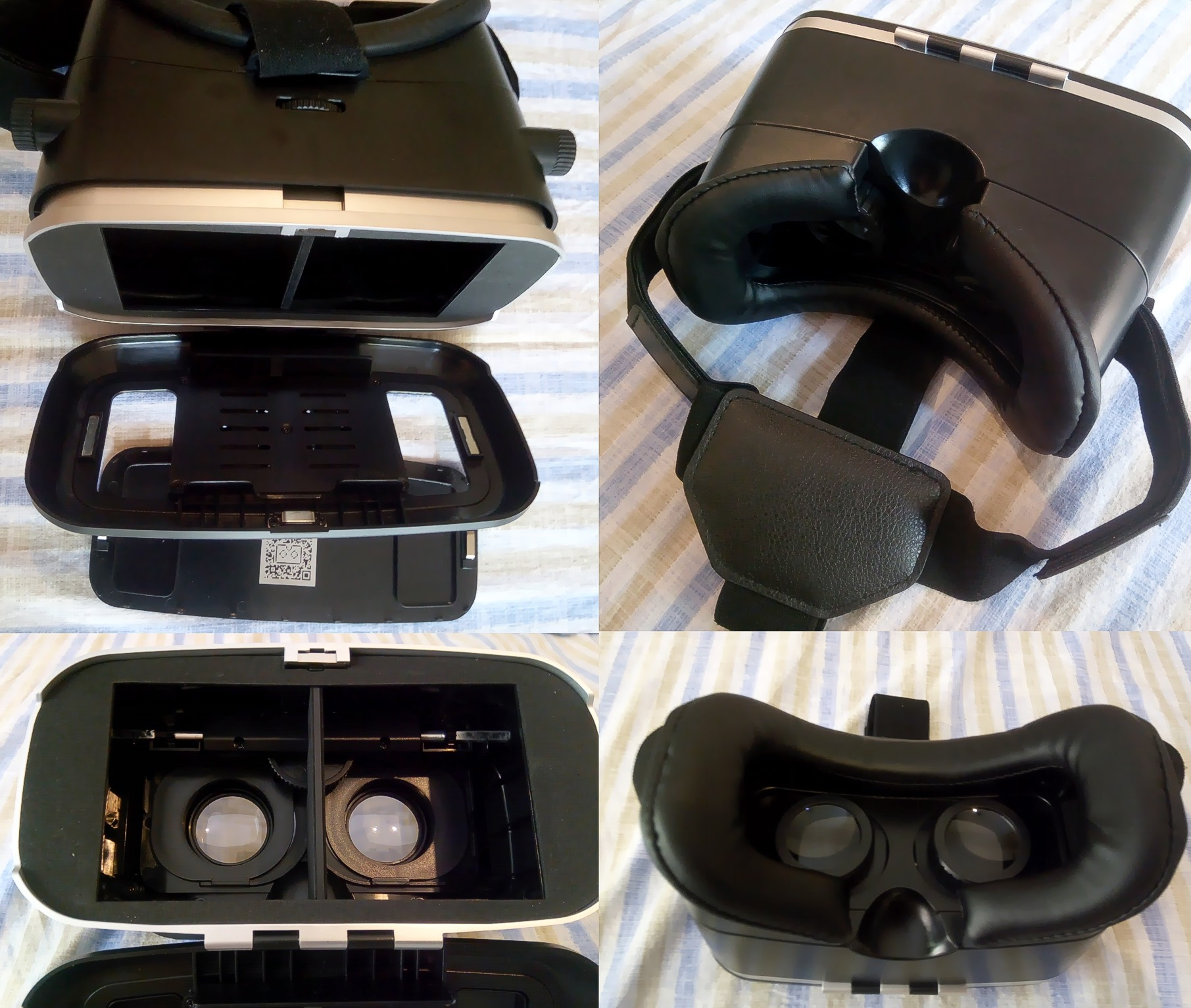 VR Support for Smartphones, which allows the focus adjustment (approaching and distancing the smartphone) and pupillary distance (distancing or approaching the lenses between them), on the left you can see the fully open support, with the door open and the coverage of the augmented reality removed, on which is imprinted the QR code for the rapid recognition, to the sides of the door there are two slots for connecting with other devices, which are generally earphones and usb-otg.